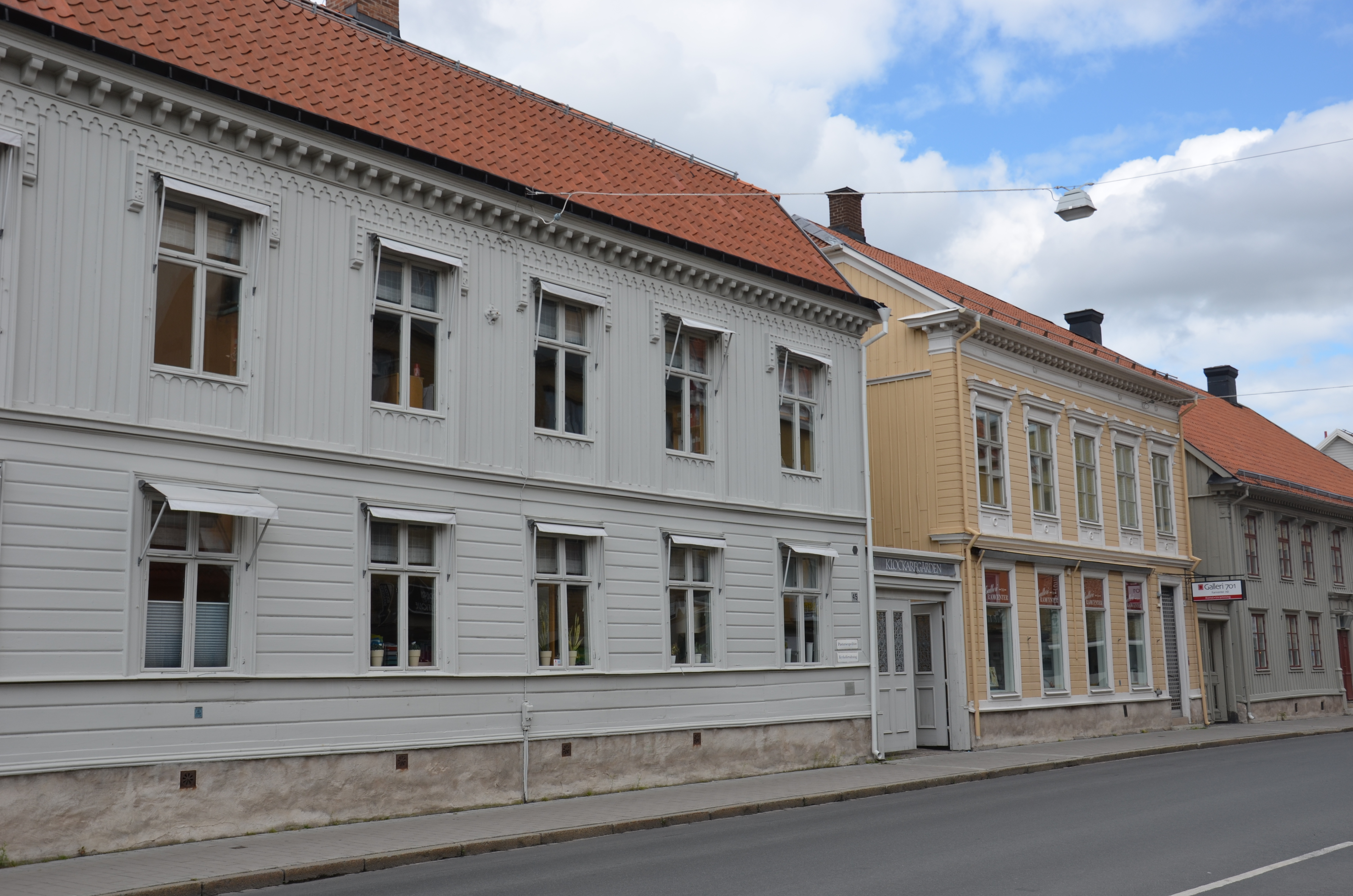 Klockaregården och Millqvistska gården, Östra Storgatan, Jönköping (kvarteret Bikten)